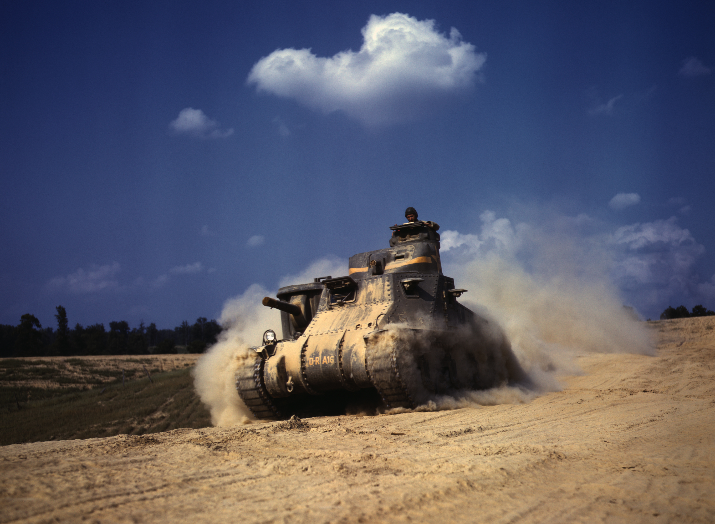 M3 Lee tank, training exercises, Fort Knox, Kentucky.